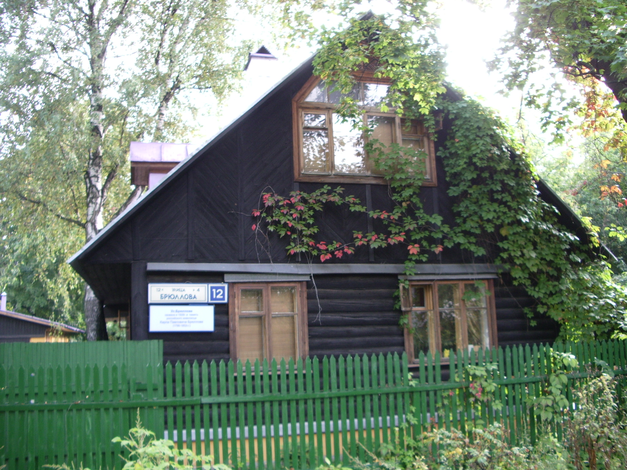 Brullova street, 12. Sokol Settlement in Moscow.